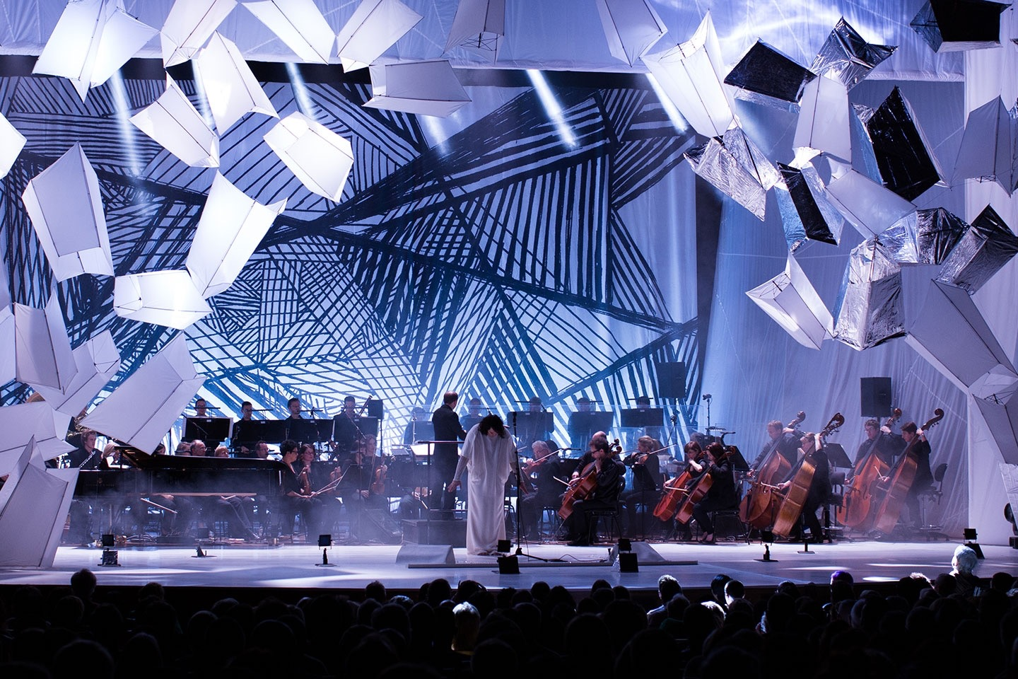 'Swanlights' starring Antony, with Boy George, at the 2012 Melbourne Festival Photo Sean Fennesy